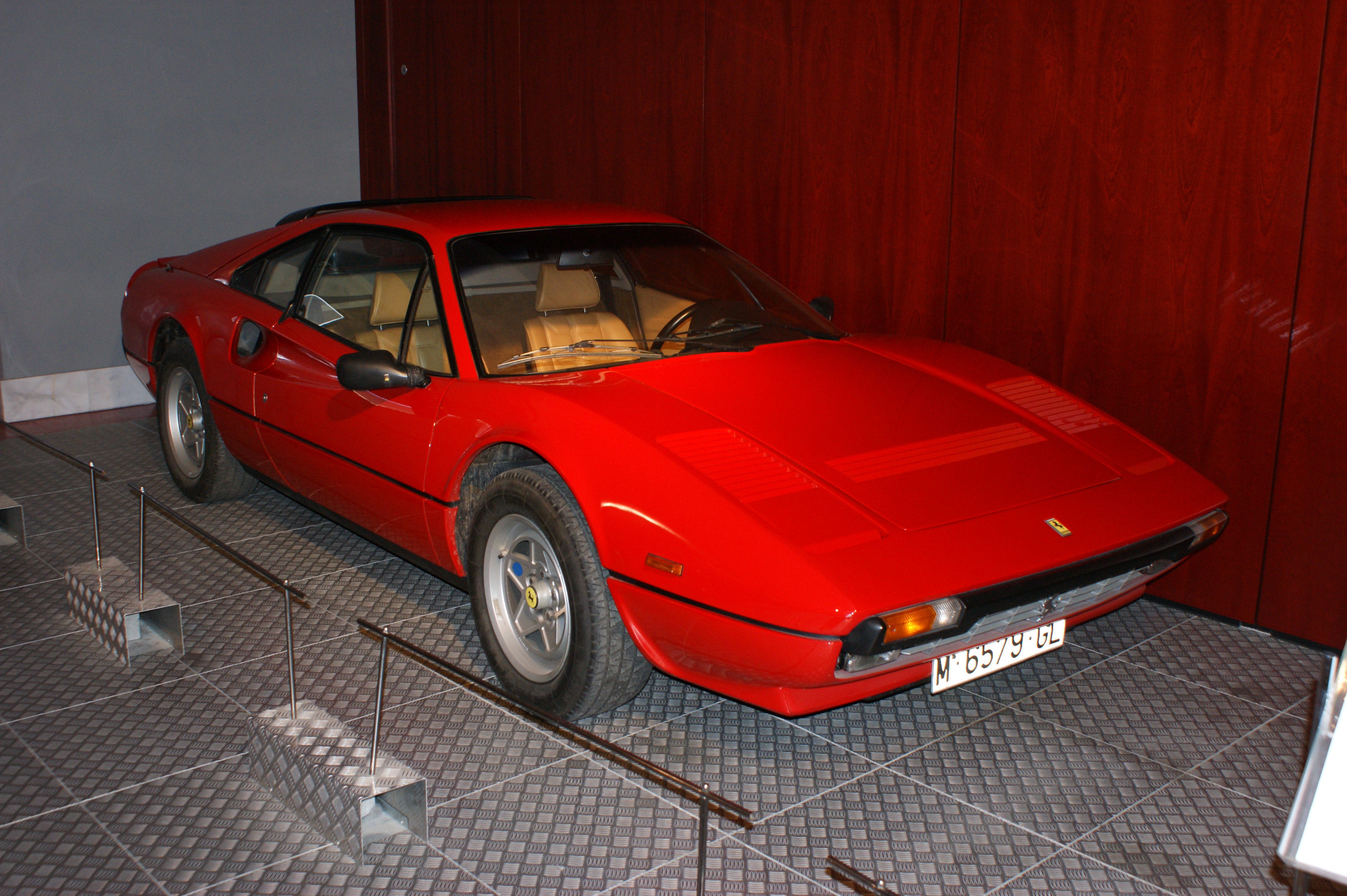 1985 Ferrari GTB Berlinetta at the Salamanca Motor Museum, 04/08.